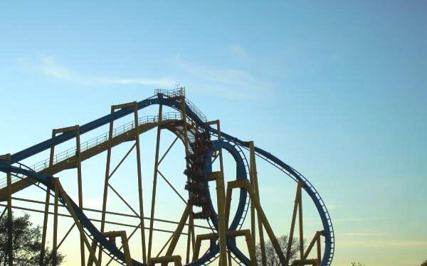 Goliath at Fiesta Texas during Holiday In The Park 2009. You can see my trip report on or